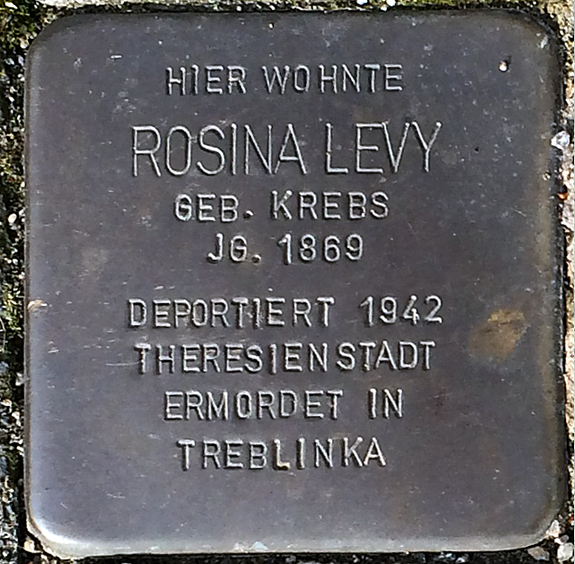 Stolperstein - Stumbling Stone in Nettetal, NRW, Germany Rosina Levy